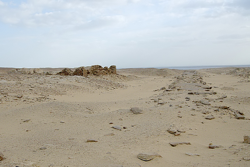 Pathway south of the temples' precinct, Dimai, el-Fayyum, Libyan desert, Egypt